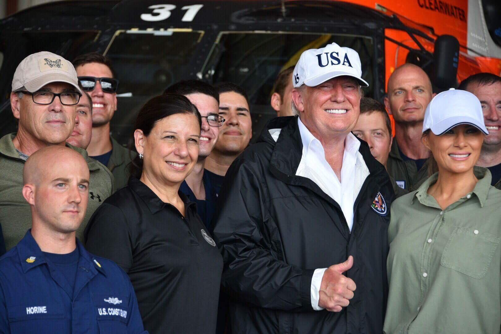 President Donald Trump, First Lady Melania Trump, Acting Secretary of Homeland Security Elaine Duke, and Secretary of Energy Rick Perry meet with members of the U.S. Coast Guard responding to Hurricane Irma in Ft. Myers, FL.